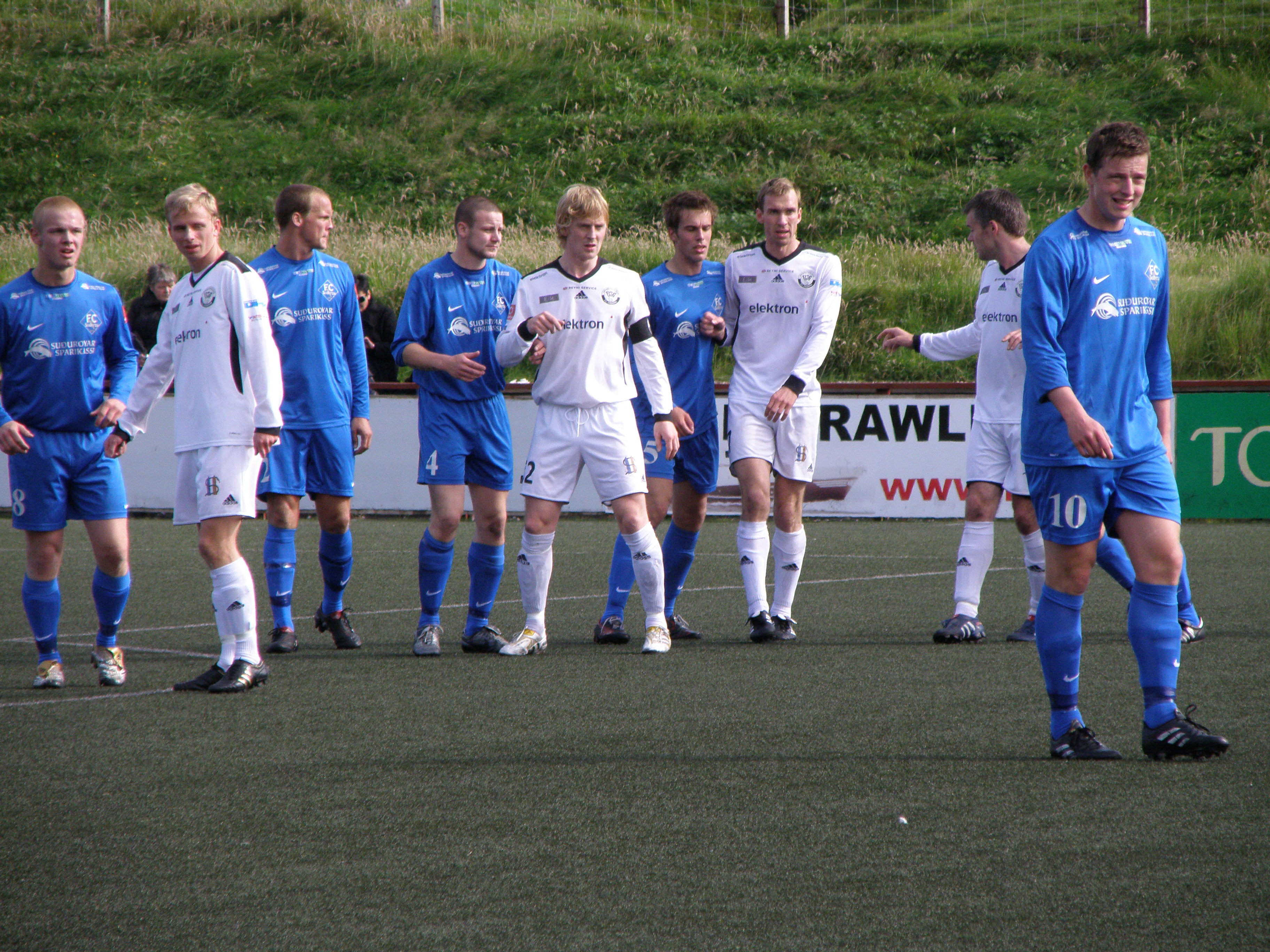 Football match between FC Suðuroy and B36 Tórshavn in Vodafonedeildin (the Premier League of the Faroe Islands). The match was played on Eiðinum Stadium in Vágur. The result of the match was 2-1 to FC Suðuroy. Two months later FC Suðuroy was relegated to 1. deild. The players are from left to right: Martin Tausen, Christian R. Mouritsen, Kasper Schultz, Heini Bech, Klæmint Matras, Heini Vatnsdal, Stig-Roar Søbstad, (?) and Jón Krosslá Poulsen. Føroyskt: Fótbóltsdystur millum FC Suðuroy og B36. Úrslitið av dystinum gjørdist 2-1 til FC Suðuroy. Tveir mánaðir seinni flutti FC Suðuroy niður í 1. deild.